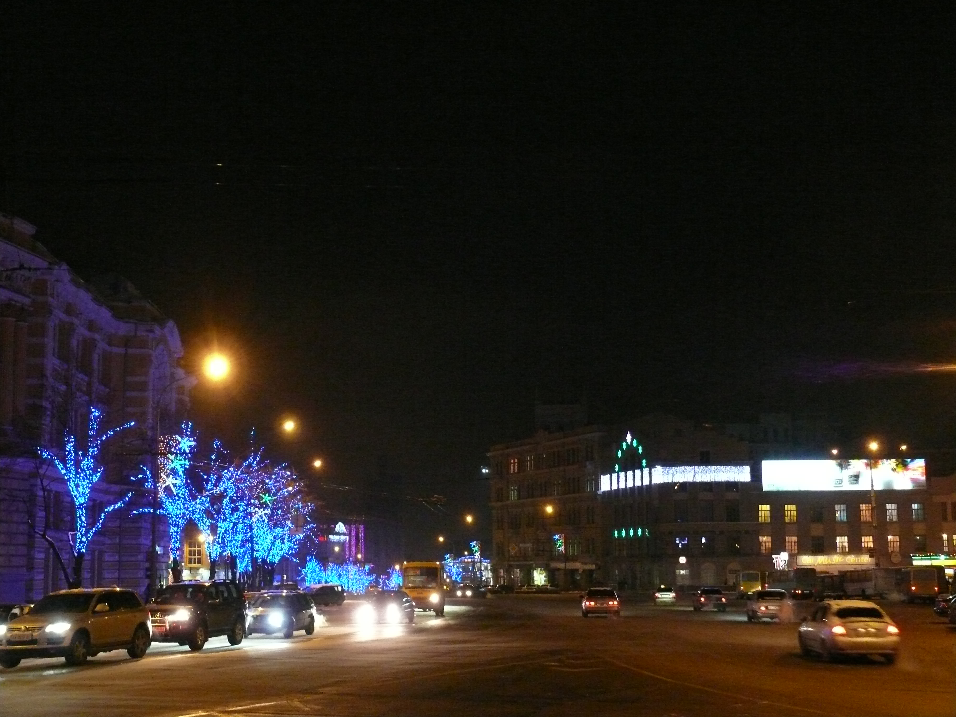 Kharkov. Constitution Square before New Year. Night.